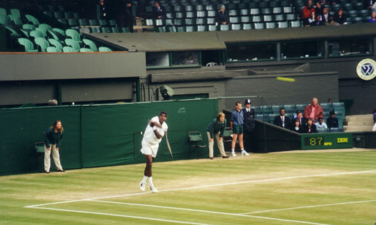 Vijay Amritraj serving in 2000 Wimbledon Senior Invitation Doubles Finals in the Centre Court.